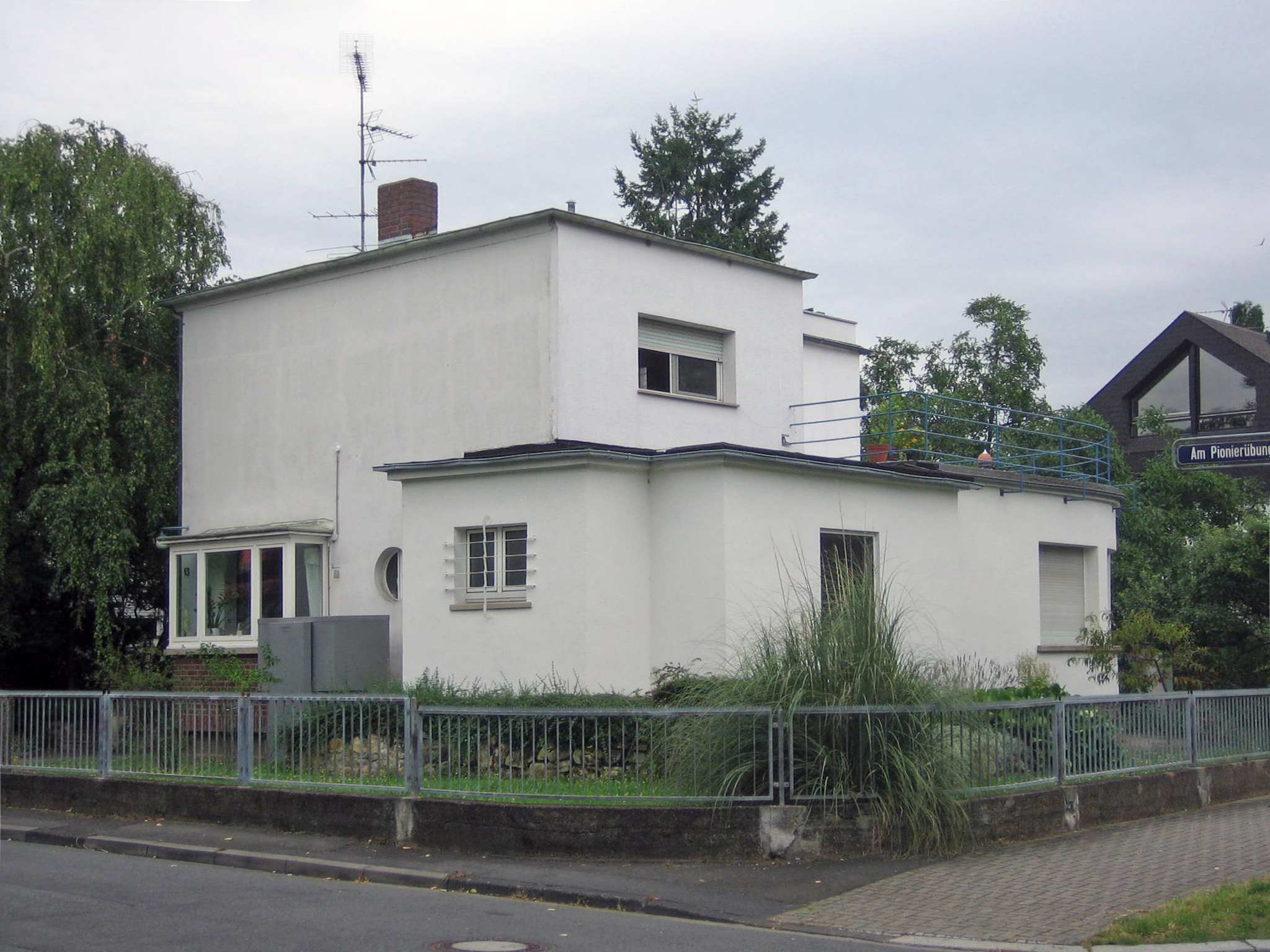 1920ies house in Mainz-Kastel